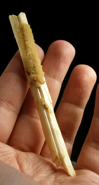 Laumontite Locality: Pine Creek Mine, Mount Morgan, Bishop, Tungsten Hills, Tungsten Hills District (Bishop District), Inyo County, California, USA (Locality at ) Size: 9.8 x 1.0 x 0.9 cm. A large, well-formed, doubly terminated laumontite crystal from a well-known California locale. The terminations are classic, fish-tail twins, one symmetrical and the other offset. A patch of yellow calcite crystals decorates the side of the pristine crystal. Highly representative and large material from this locale.